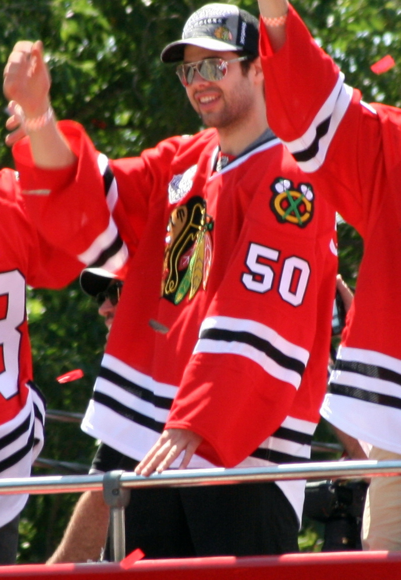 Blackhawks Victory Parade Chicago June 28th